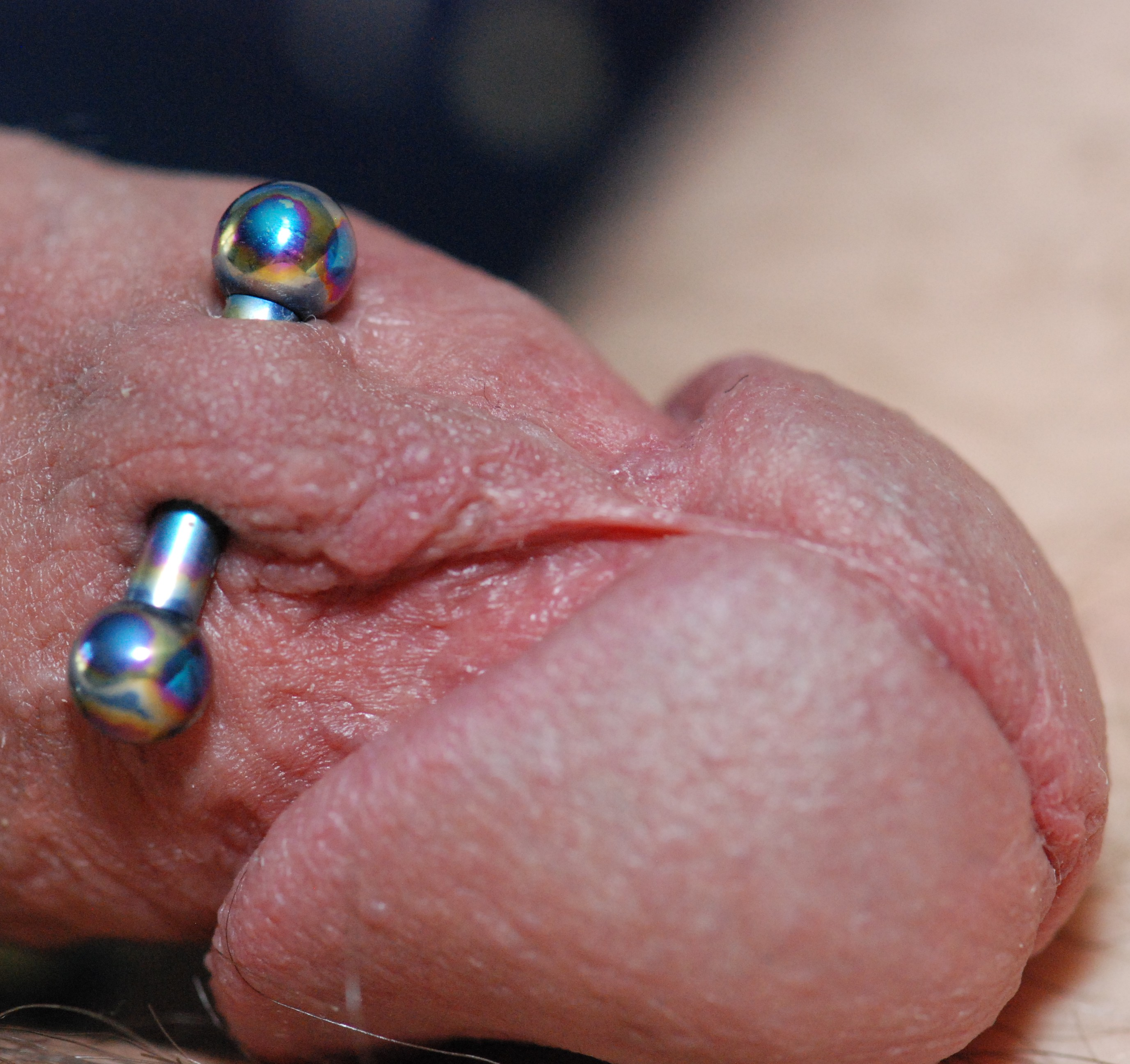 Frenum piercing